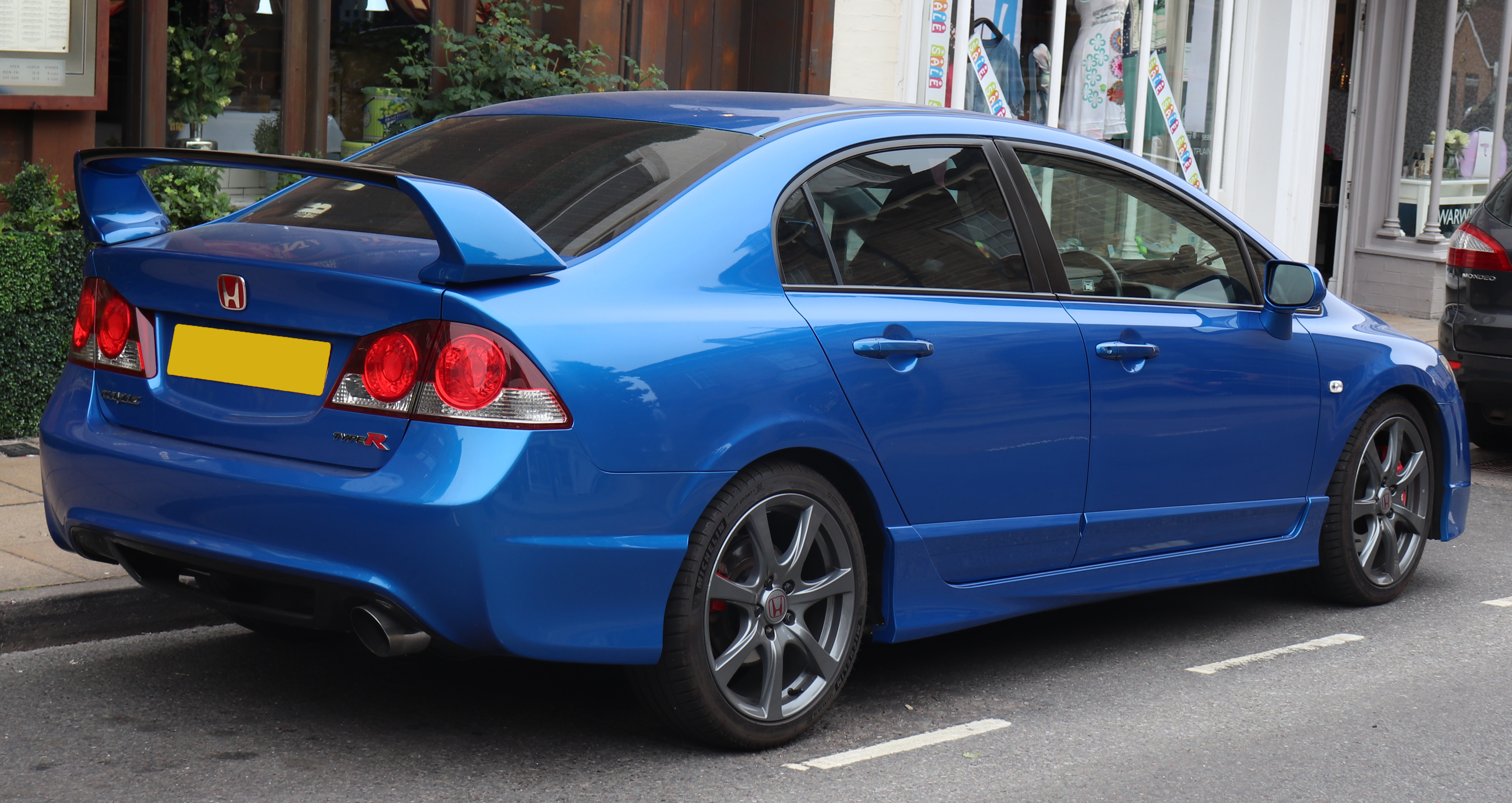 2008 Honda Civic Type-R 2.0 Rear Taken in Warwick